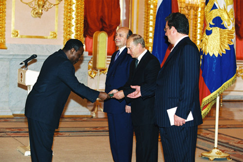 THE GRAND KREMLIN PALACE, MOSCOW. Tanzanian Ambassador Patrick Segeja Chokala presenting his credentials to President Putin.